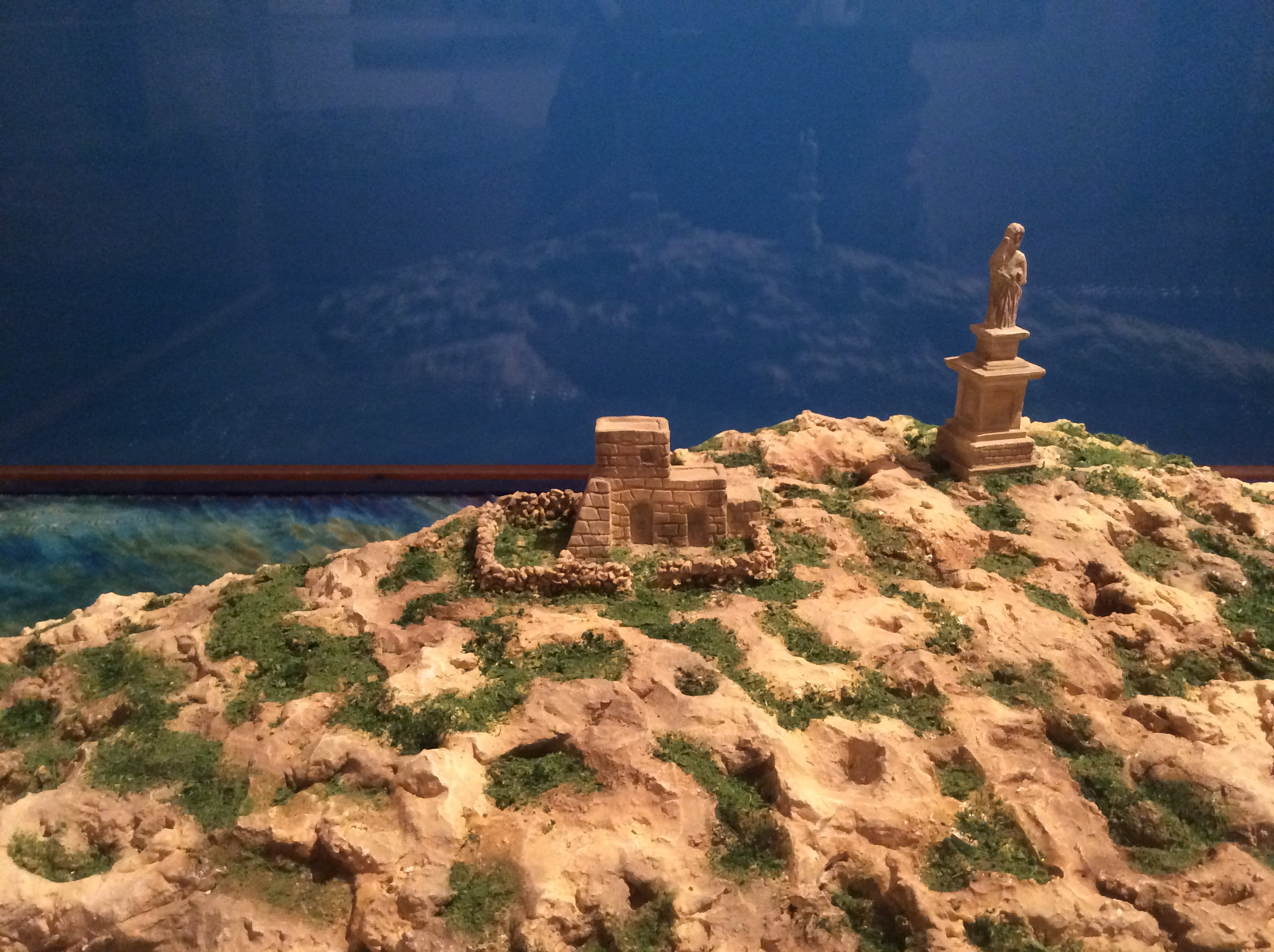 St Paul's Islands, farmhouse before it became ruin, model at the National history museum, Mdina